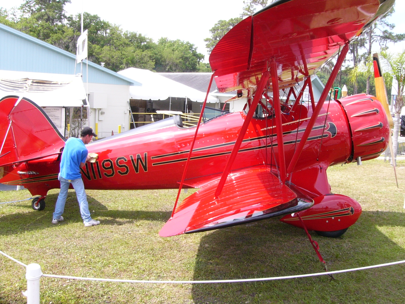 A brand new 2006 model WACO Classic Aircraft YMF-F5C biplane